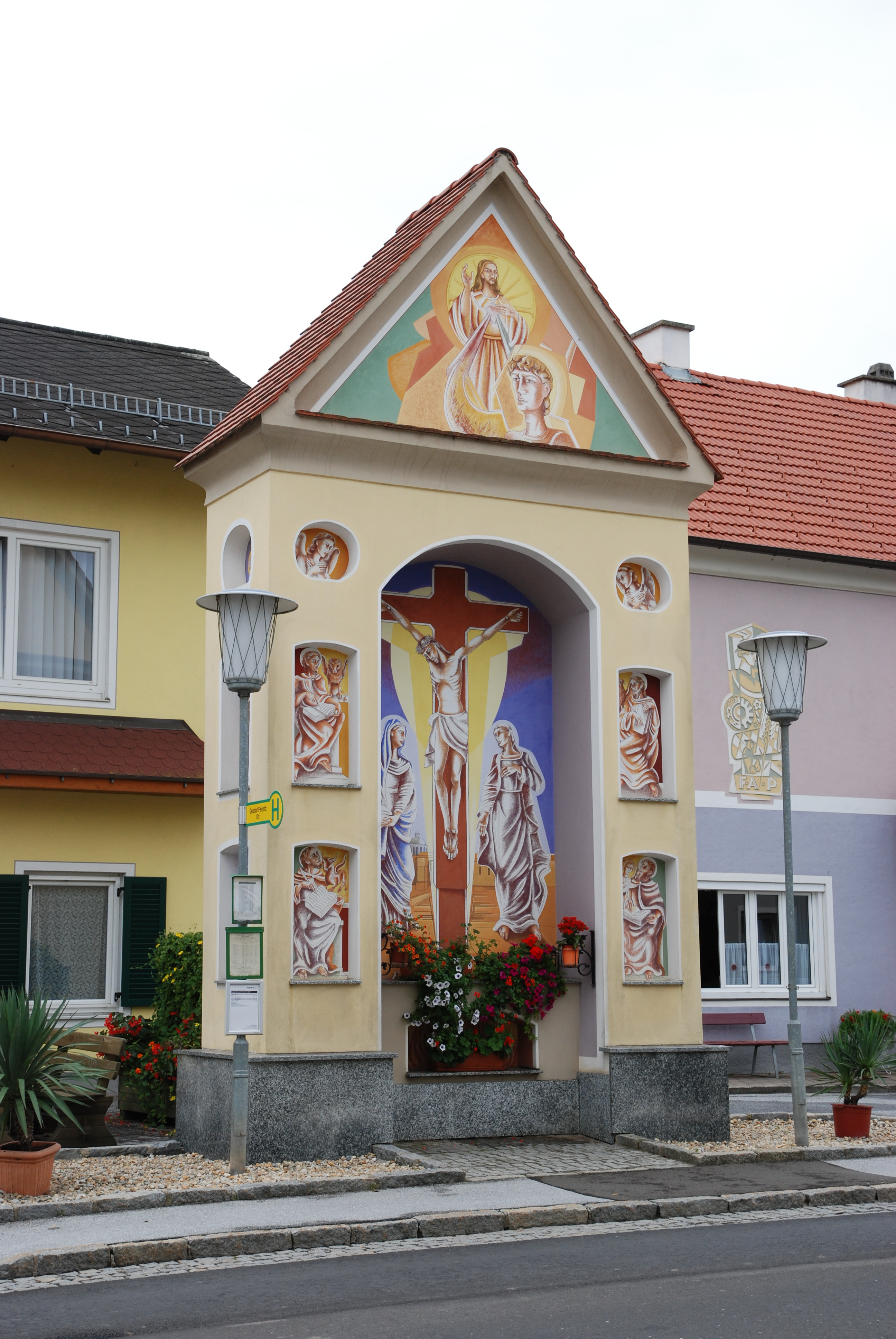 Ortsbildstock Gersdorf an der Feistritz